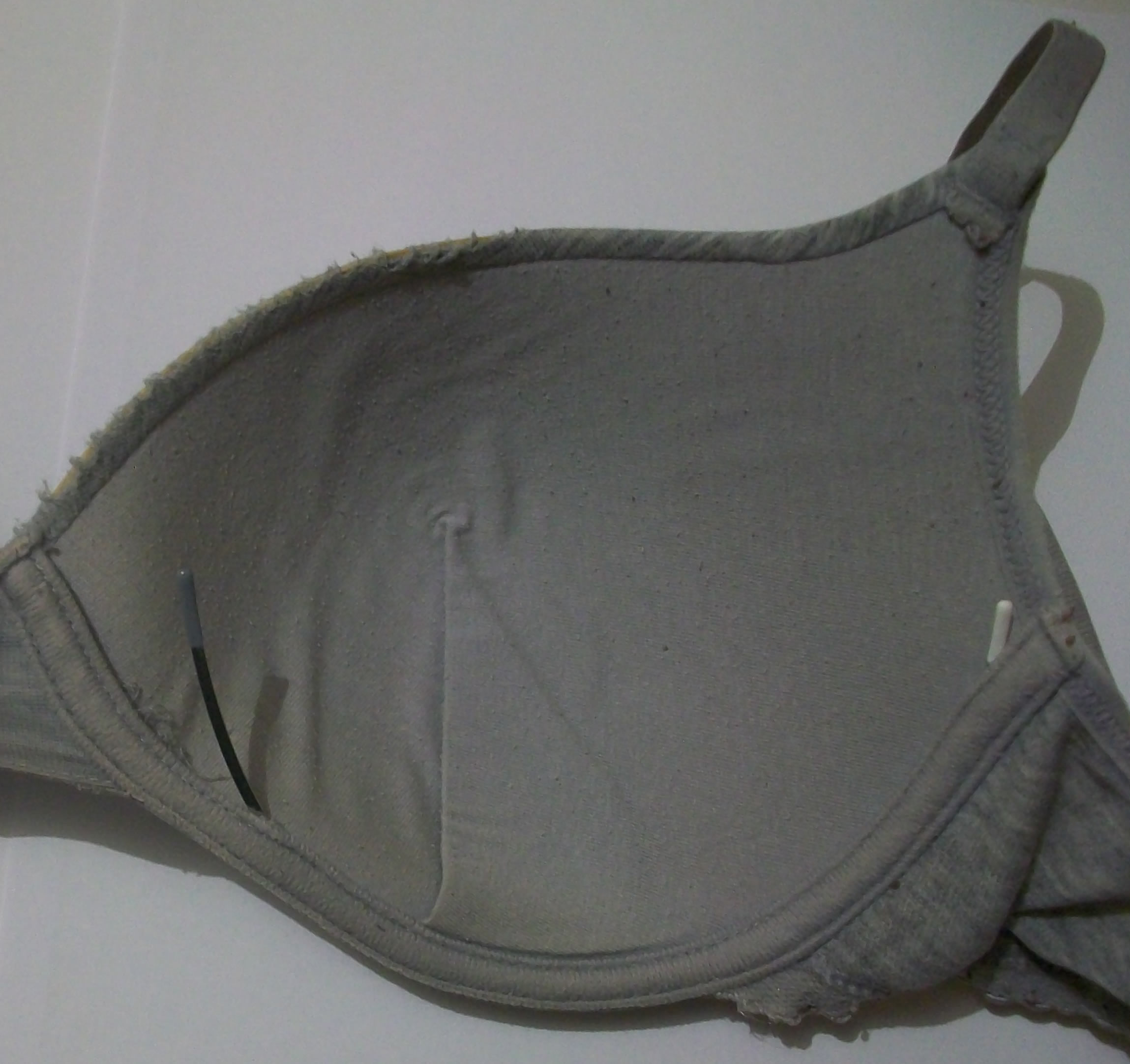 Metal underwire protruding from a worn poor quality bra cup. Not common with high quality products, even if worn